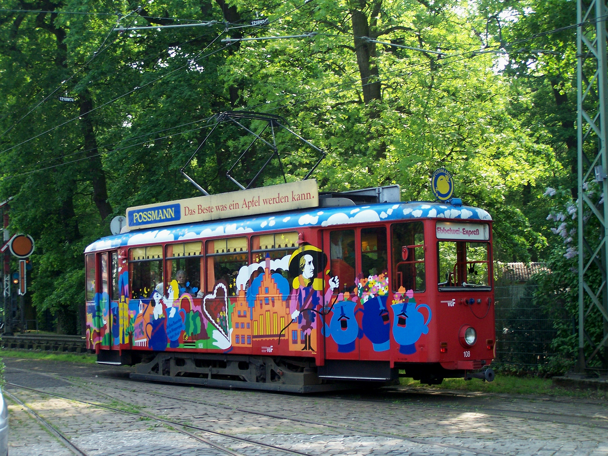 tram type K No 108 at the Frankfurt on Main Transport Museum in Frankfurt am Main--Schwanheim